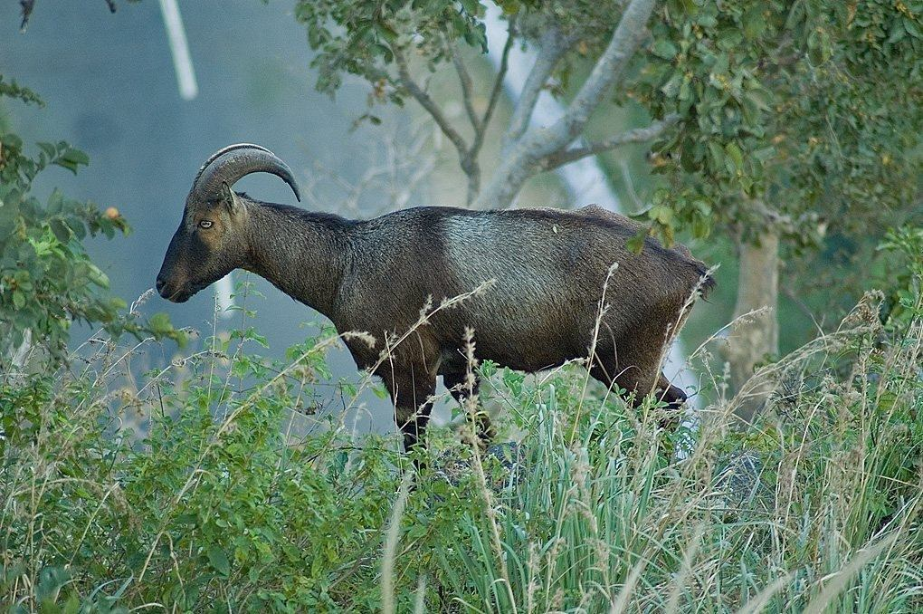 An adult male Nilgiri Tahr, also "saddleback".